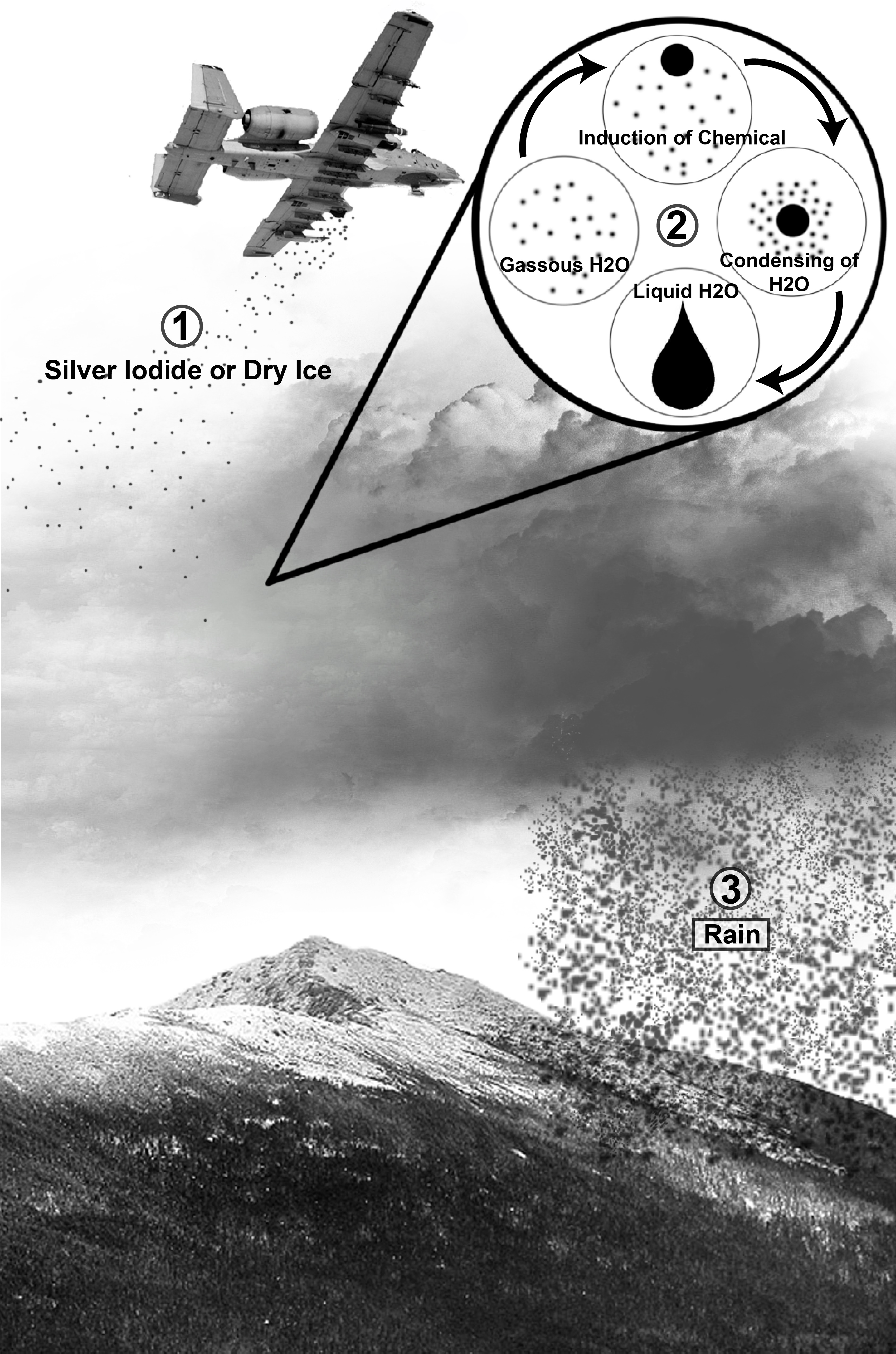 This image explaining cloud seeding shows the chemical either silver iodide or dry ice being dumped onto the cloud, which then becomes a rain shower. The process shown in the upper-right is what is happening in the cloud and the process of condensation to the introduced chemicals.